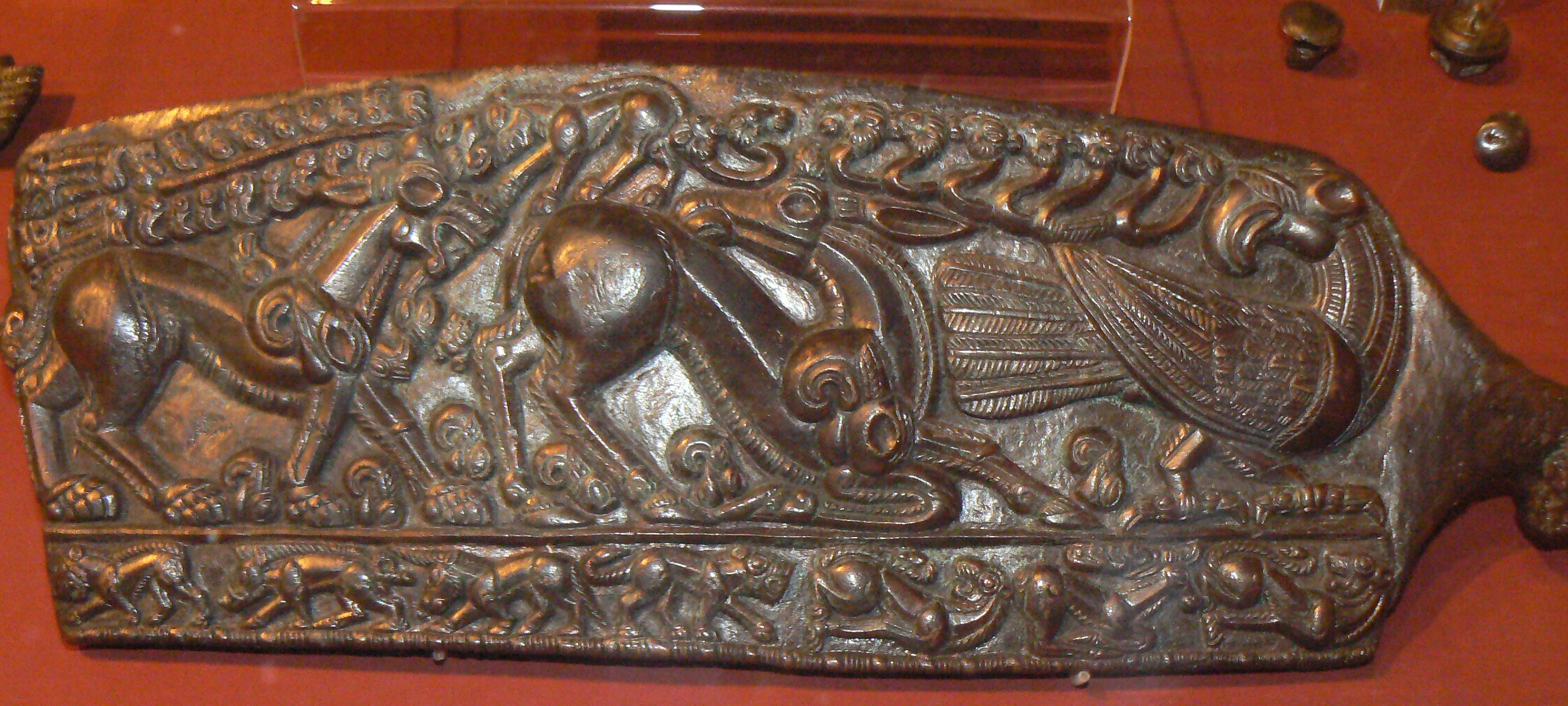 Bronze stamp-anvil from 5-4 century BC, village Garchinovo, Targovishte. Exhibit of the National History Museum of Bulgaria (copy, the original is in the Shumen History Museum)